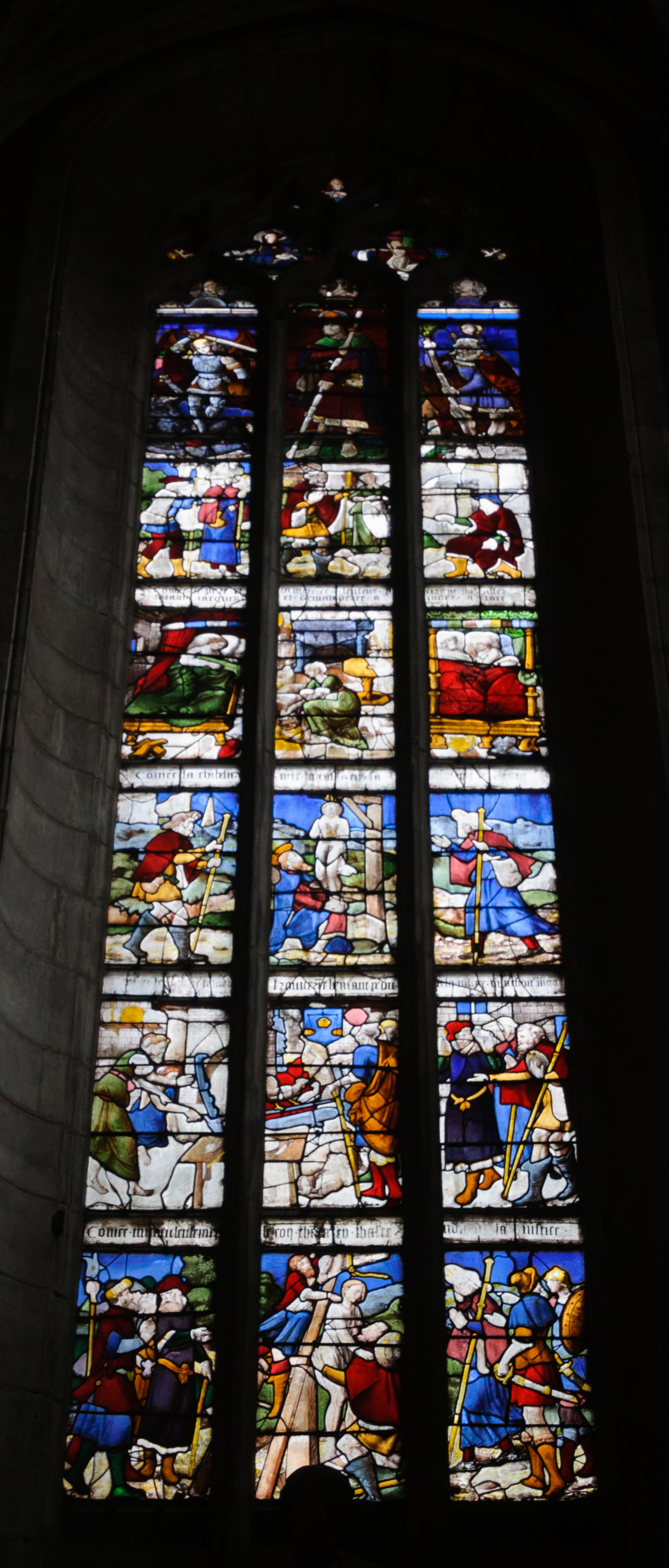 16th-century stained glass window of the Pilgrims of Way of Saint James, Châtillon-sur-Seine, Côte-d'Or department, Burgundy, France.